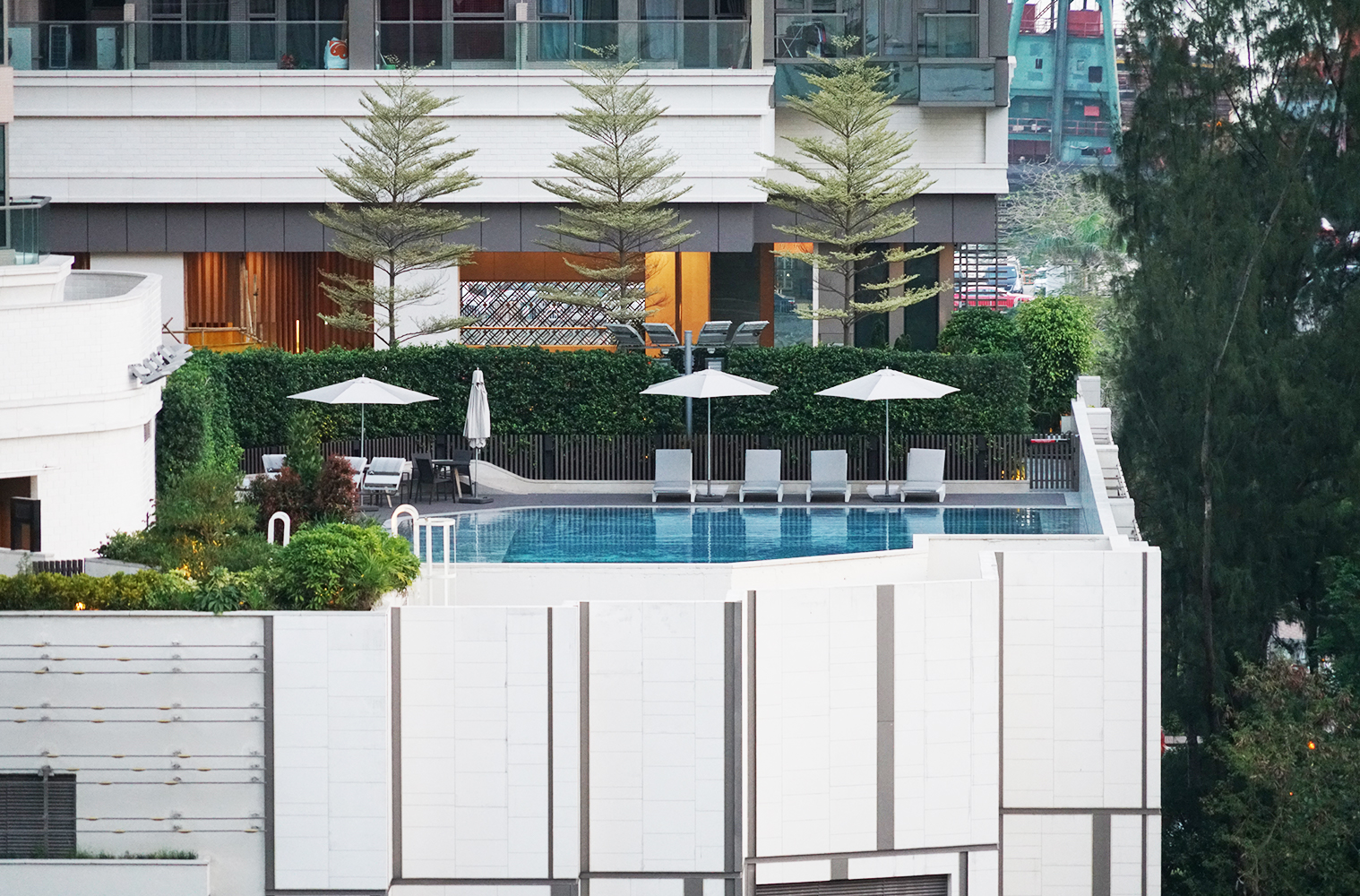 One East Coast, Hong Kong.